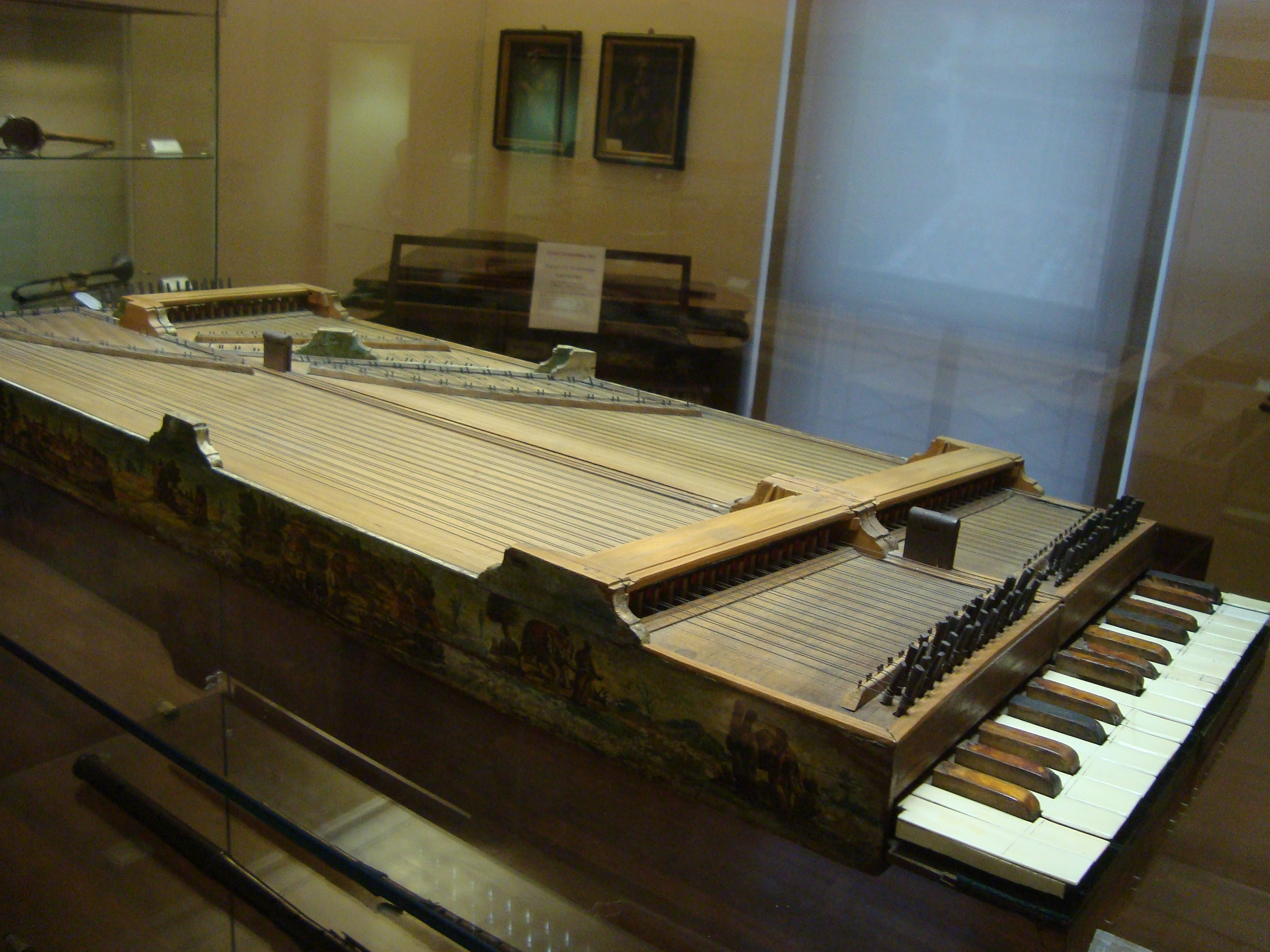 Harpsichord for travels, by manufacturer Carlo Grimaldi, from the 18th century, Museo Nazionale degli Strumenti Musicali di Roma